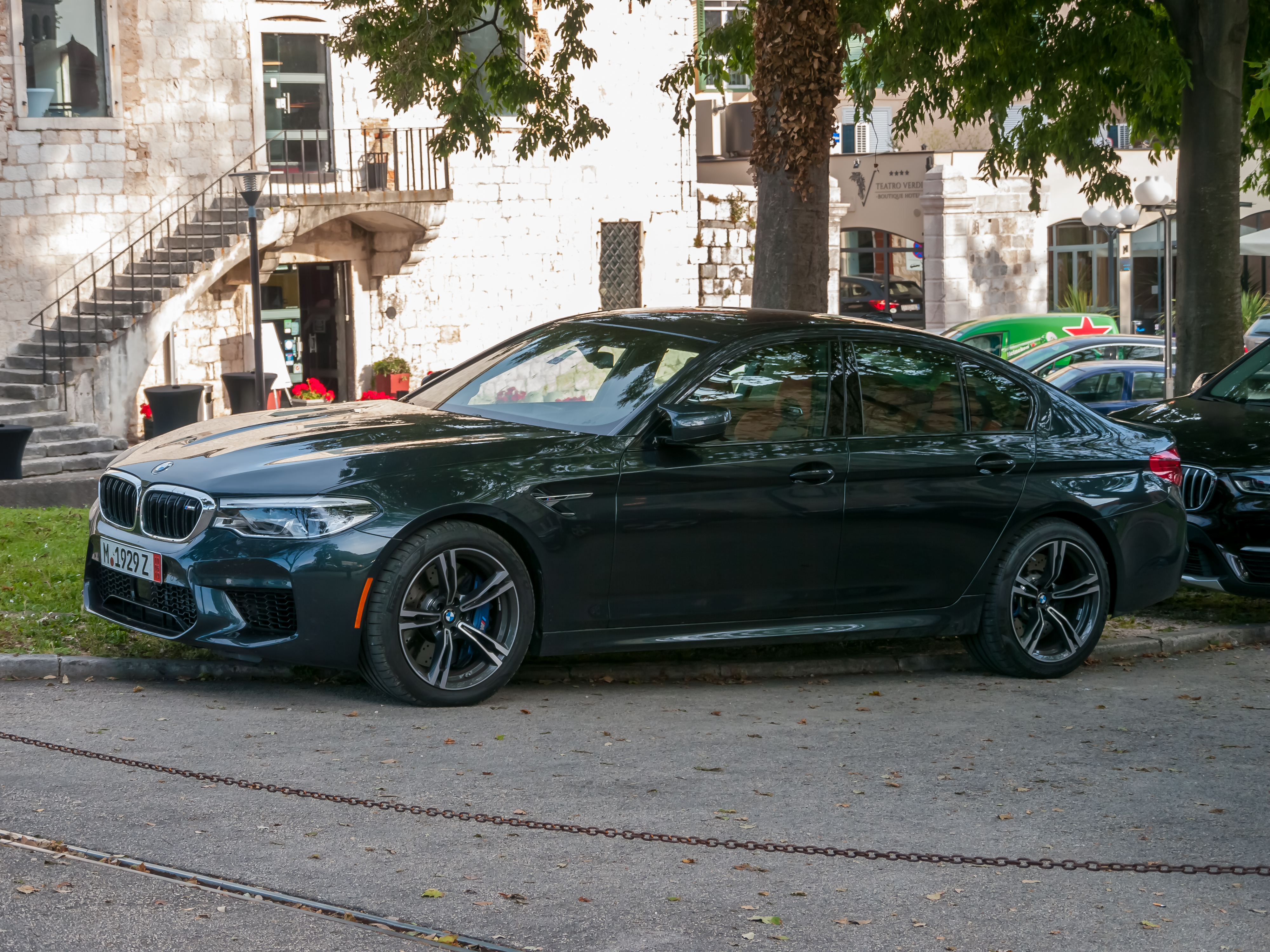 US Spec BMW M5 (European Delivery) in Zadar, Croatia